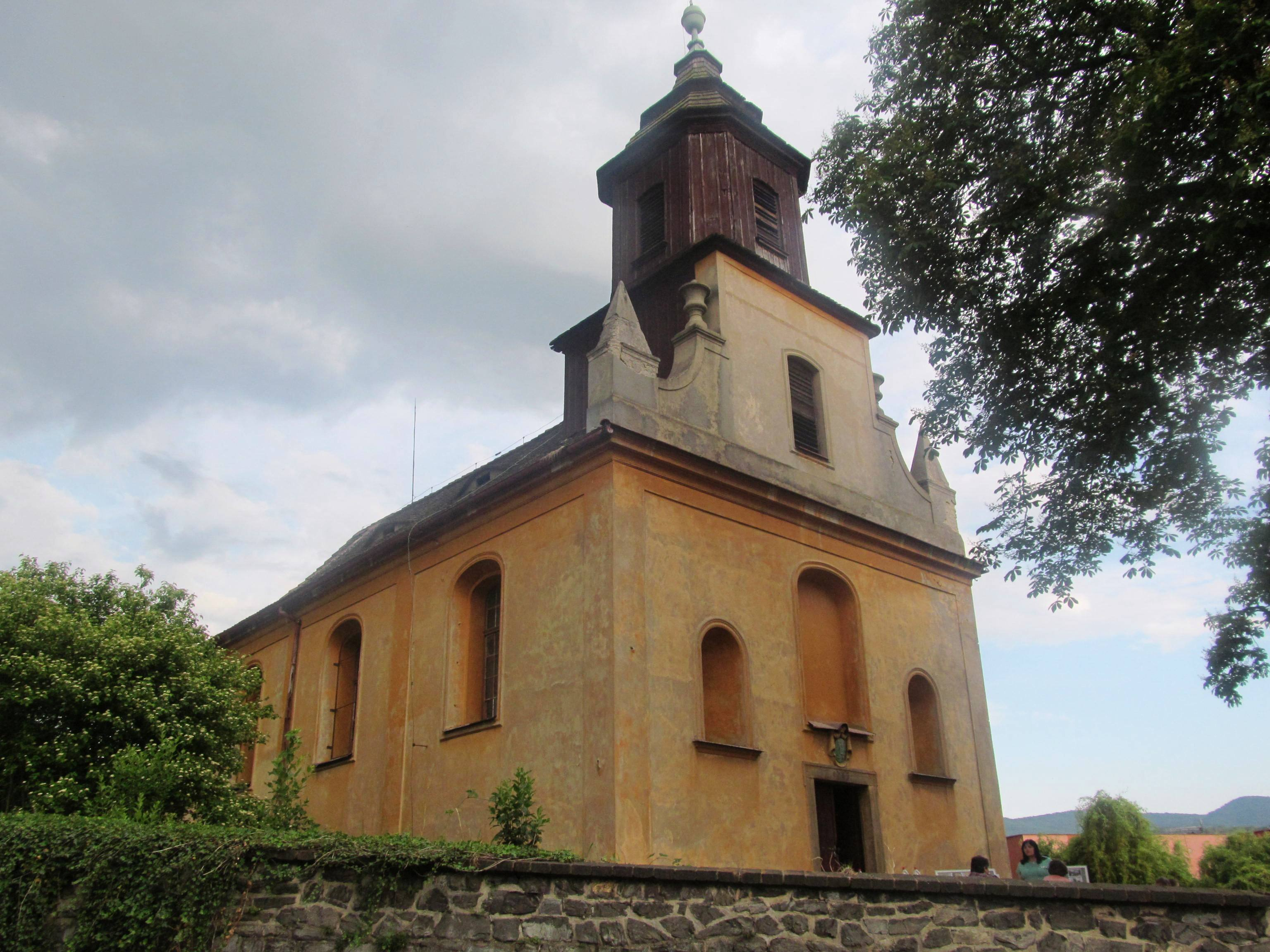 Church of Saint Lawrence in Hradiště by Bžany